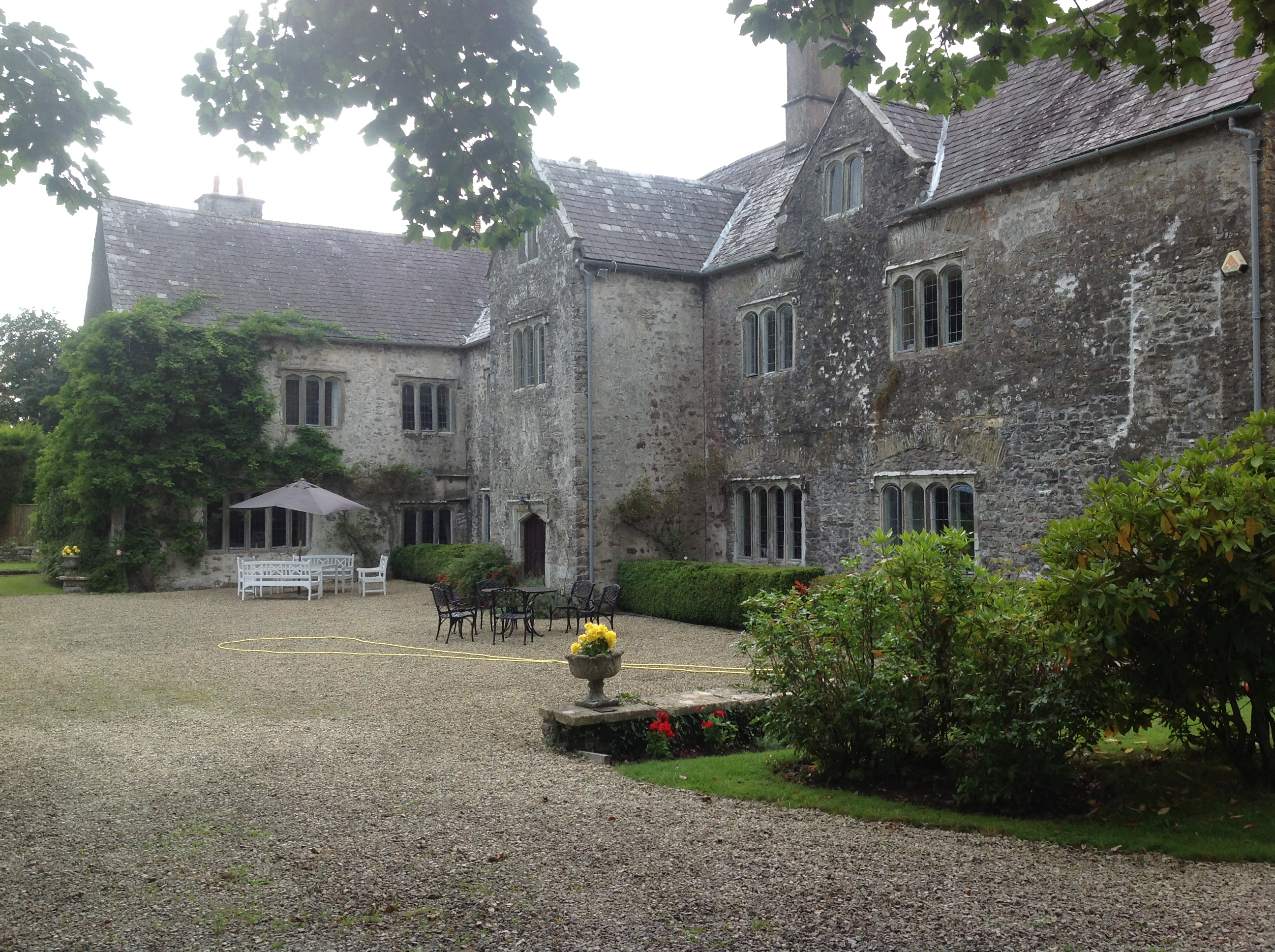 Llansannor Court, Llansanor, Vale of Glamorgan, Wales. 16th century manor house.